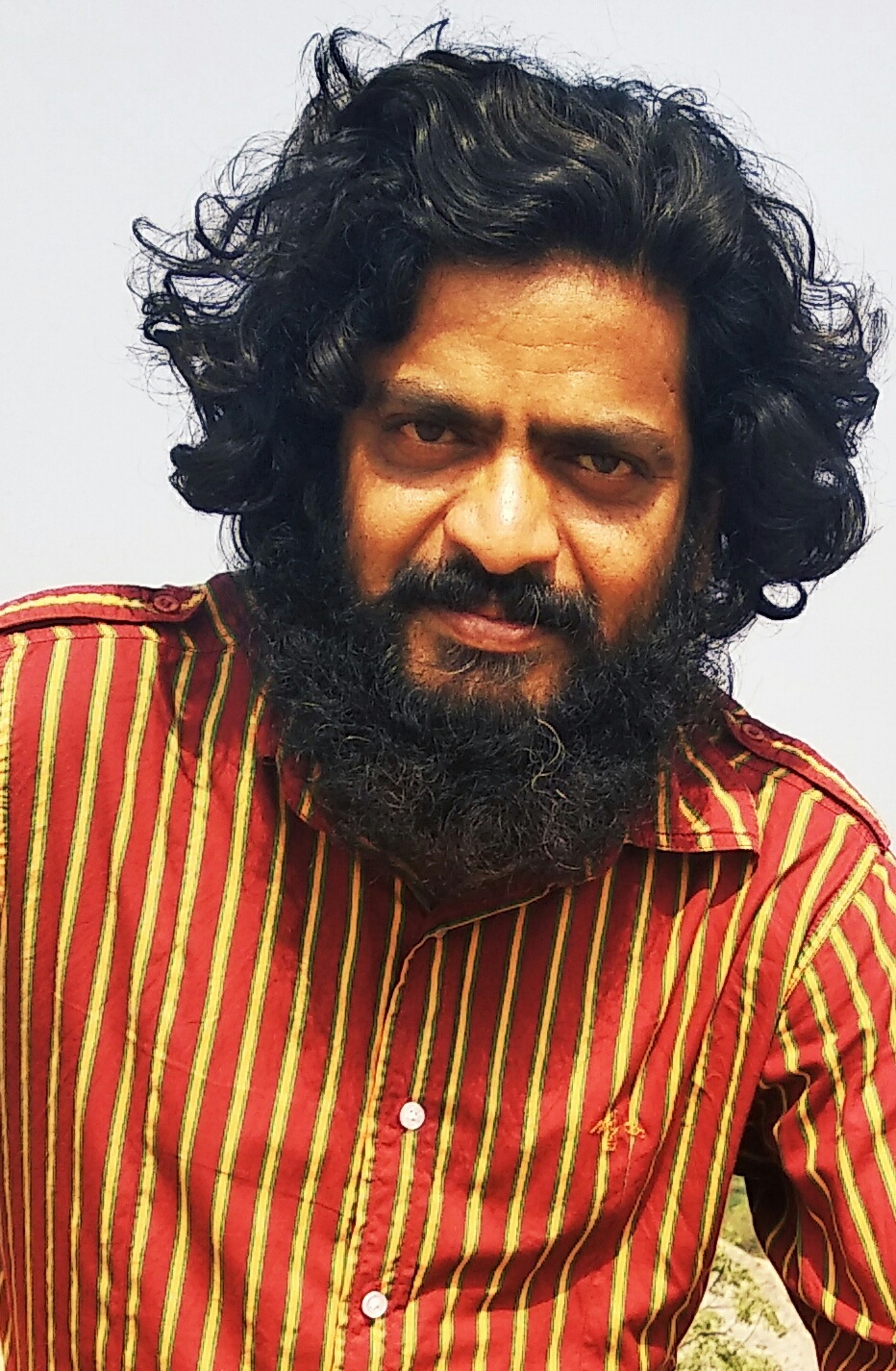 Boggula Srinivas